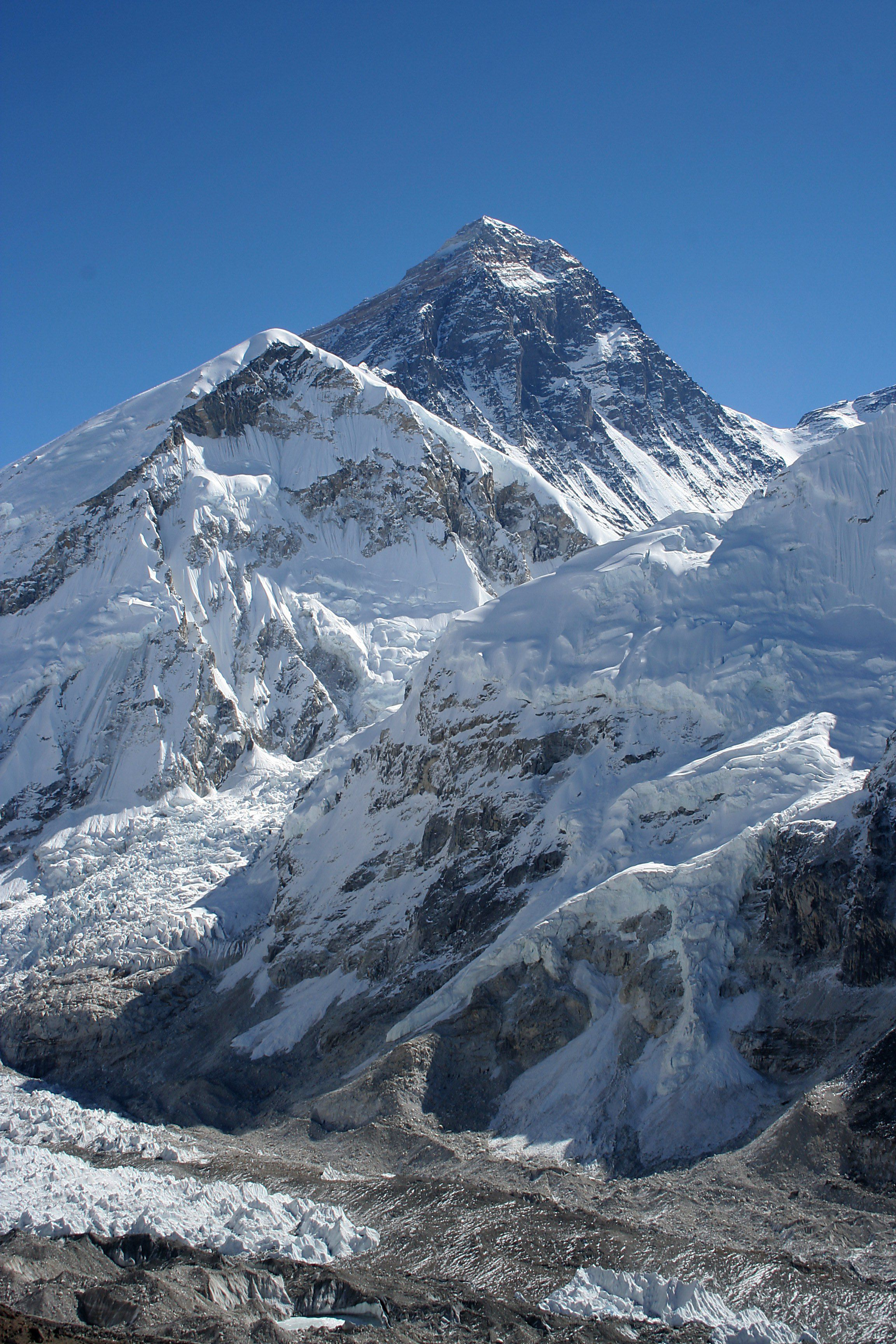 Mount Everest from Kalapatthar.